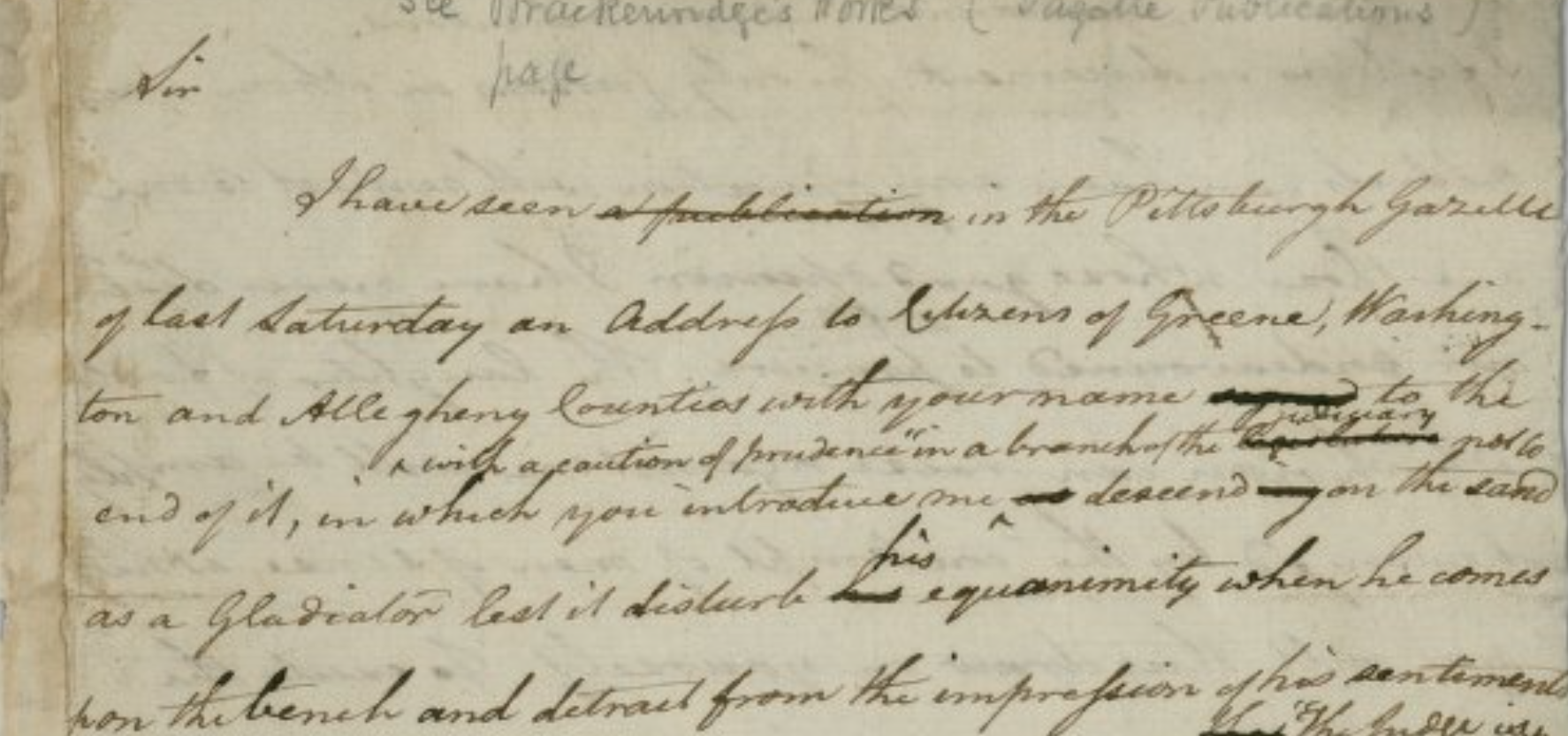 Personal correspondence between Alexander Addison, a federal judge of Western Pennsylvania on September 3, 1798Se